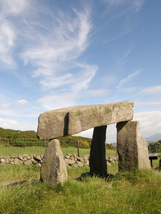 Legannany Dolmen, June 2010